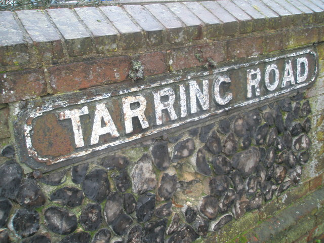 Old fashioned road sign outside St Matthew's, Worthing